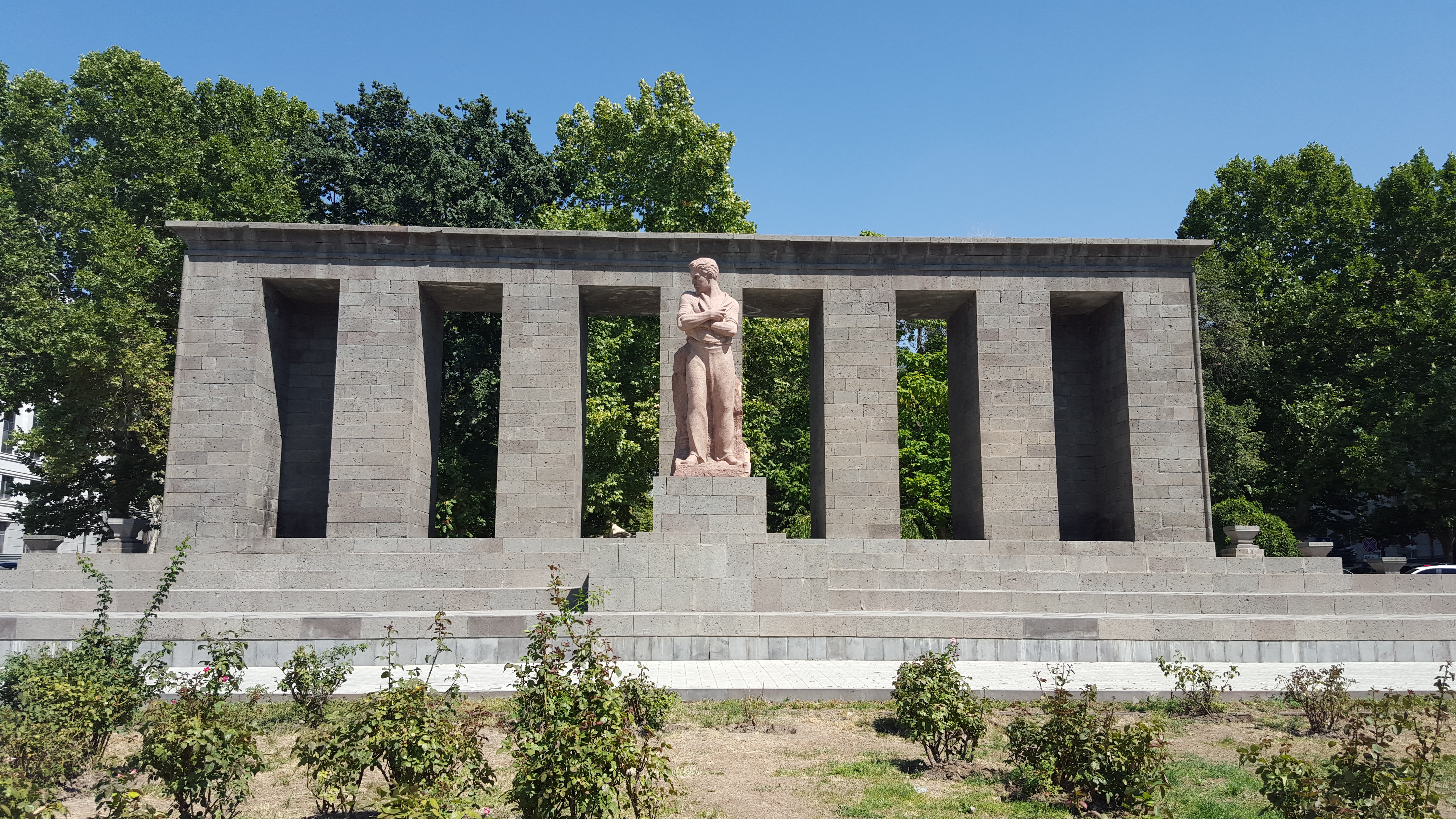 Stepan Shahumyan statue in Yerevan